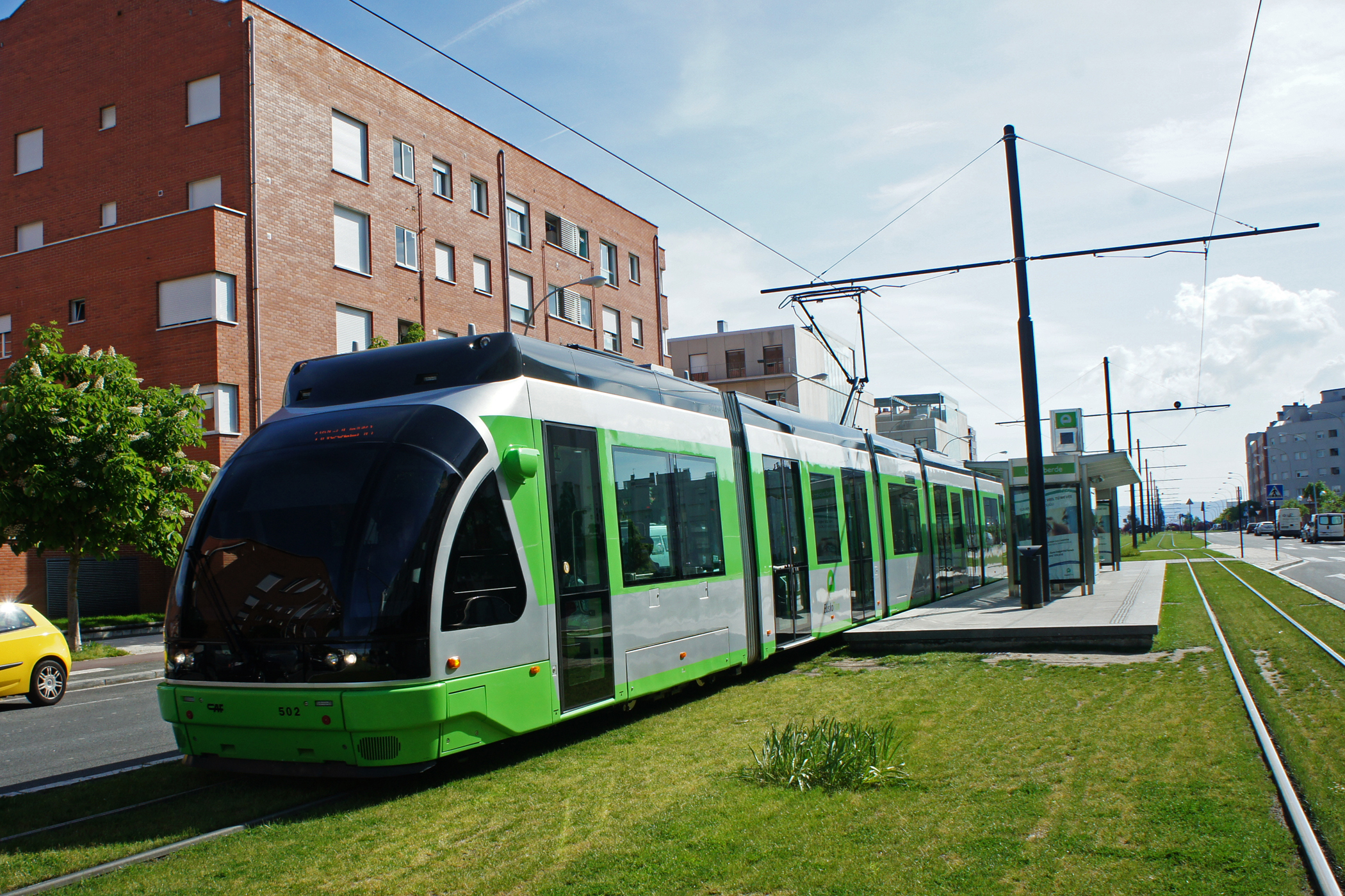 Eusko Tran, Vitoria, Basque Country, Spain